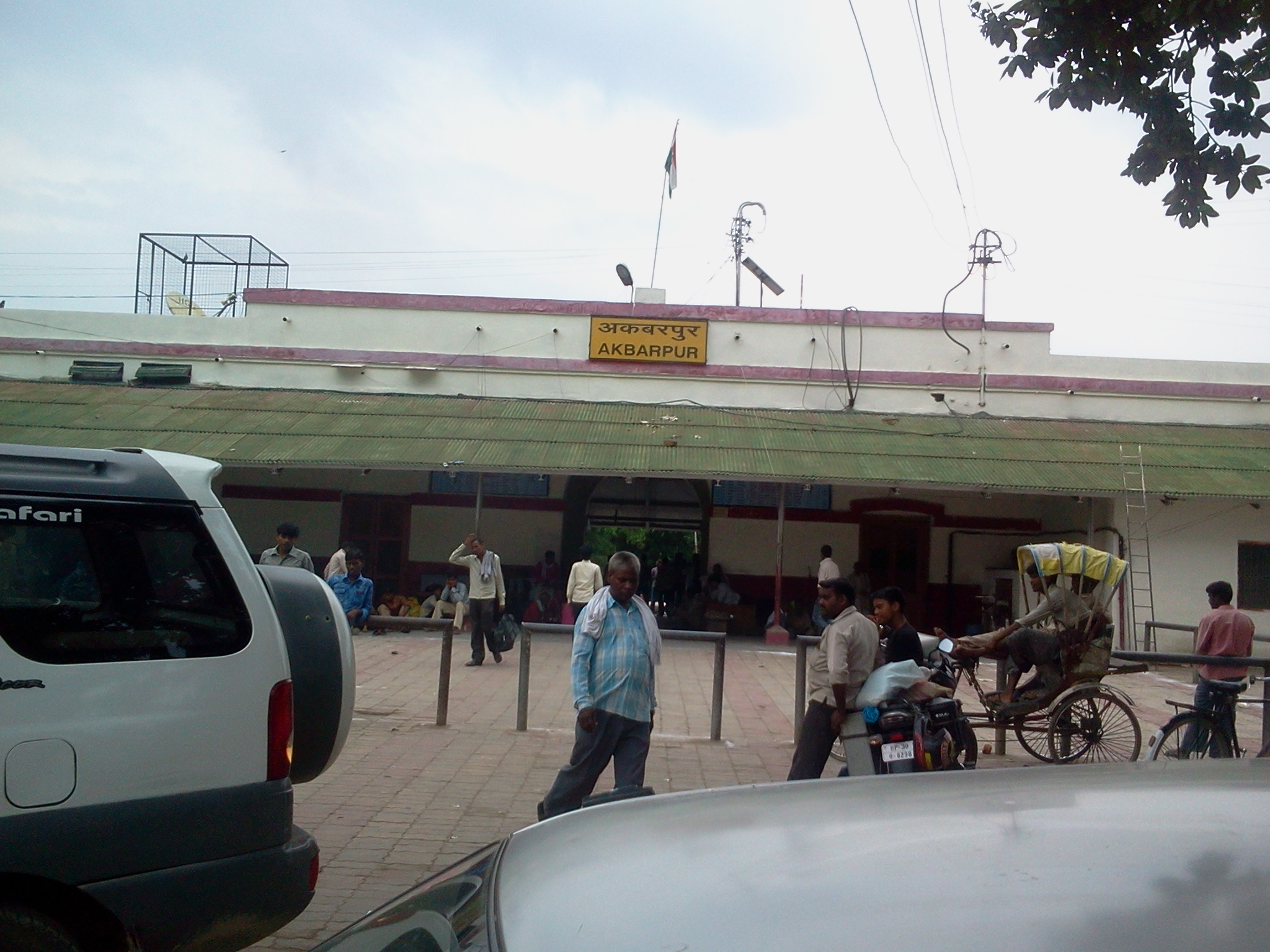 Akbarpur Railway Station